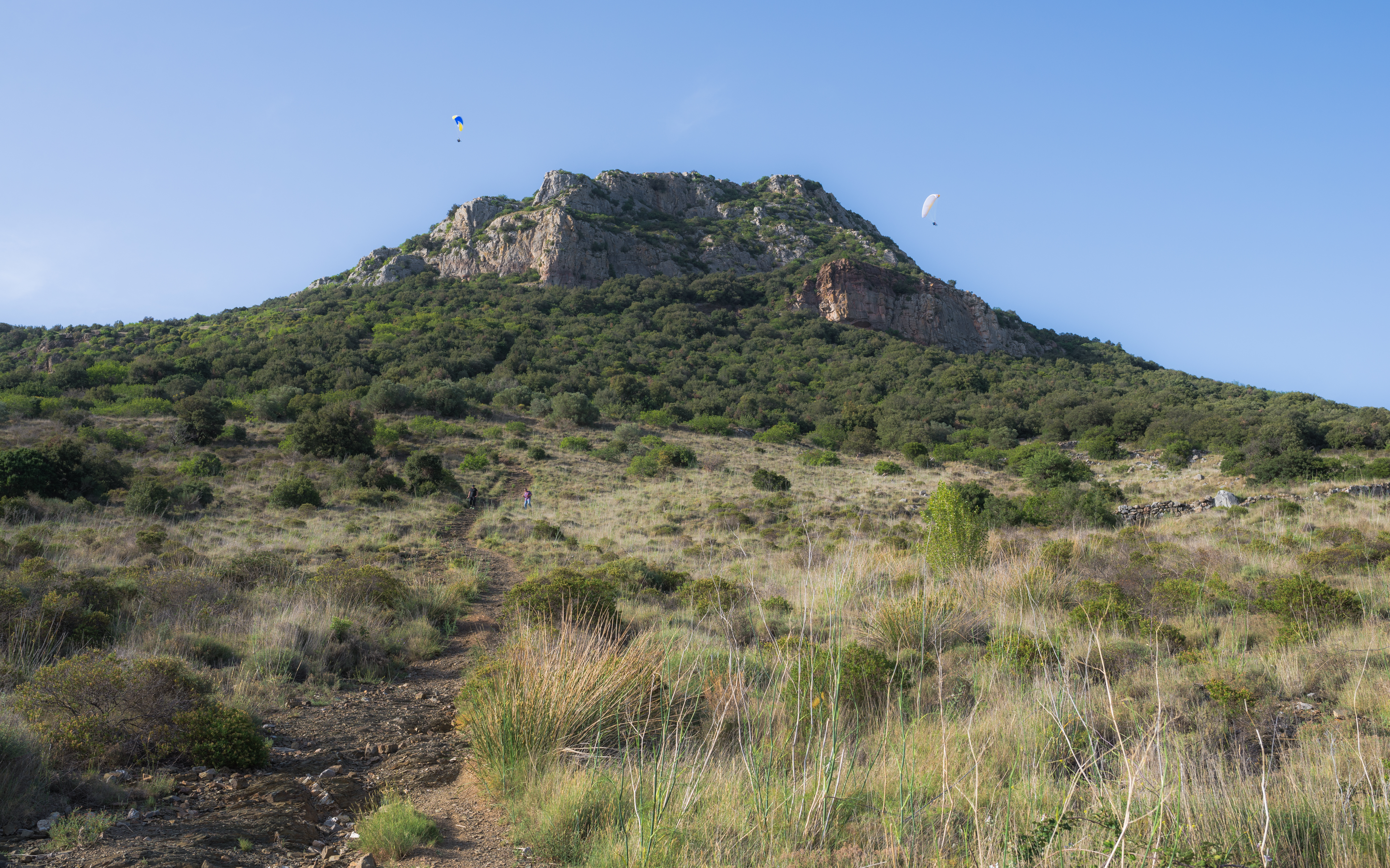 The Pic de Vissou (480m) seen from South and two paragliders. The place is known for the practice of paragliding and of ridge lift. Place : Cabrières, Hérault, France.